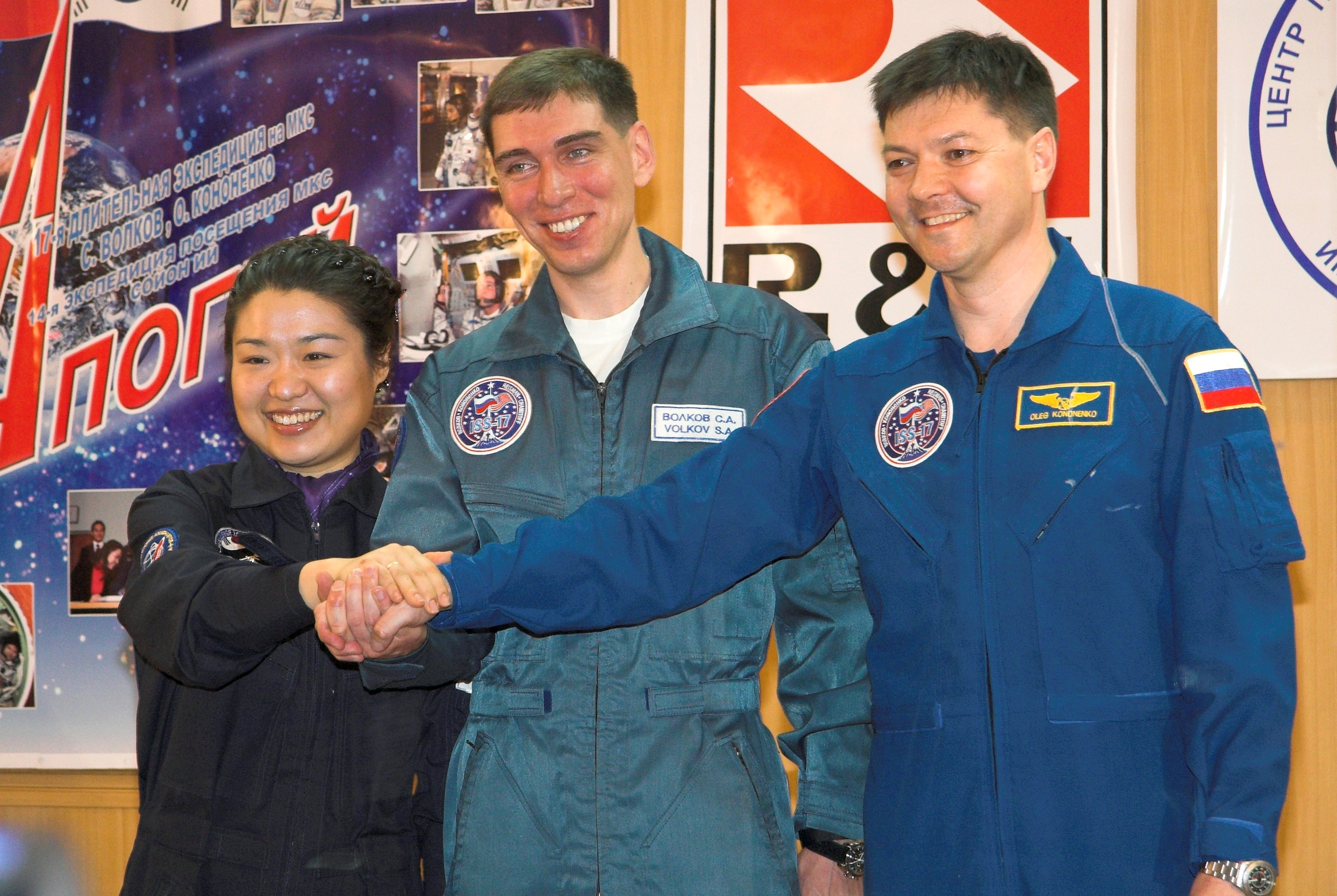 At their crew quarters in Baikonur, Kazakhstan, Expedition 17 Commander Sergei Volkov (center), Flight Engineer Oleg Kononenko (right) and South Korean spaceflight participant So-yeon Yi clasp hands for photographers on April 7, 2008, the eve of their launch to the International Space Station. Volkov, Kononenko and Yi are scheduled to launch to the station on the Soyuz TMA-12 spacecraft from the Baikonur Cosmodrome on April 8 and arrive at the ISS on April 10 to begin what will be six months in space for Volkov and Kononenko. Yi will be in space nine days on the complex, returning to Earth with two of the Expedition 16 crewmembers currently on the station.